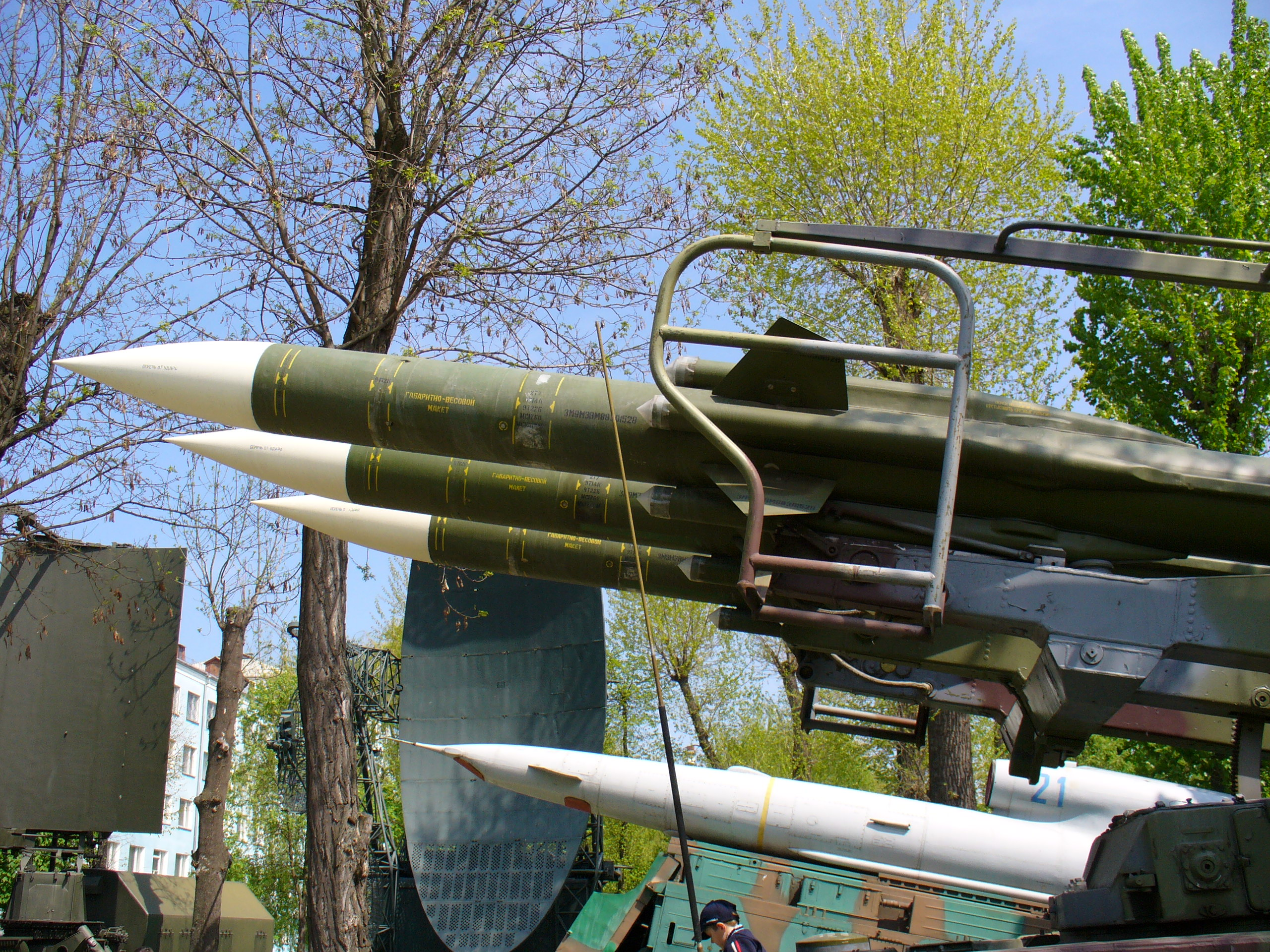 The 2K12 Kub mobile surface-to-air missile system. NATO reporting name SA-6 Gainful. Ukrainian Air Force Museum in Vinnitsa.